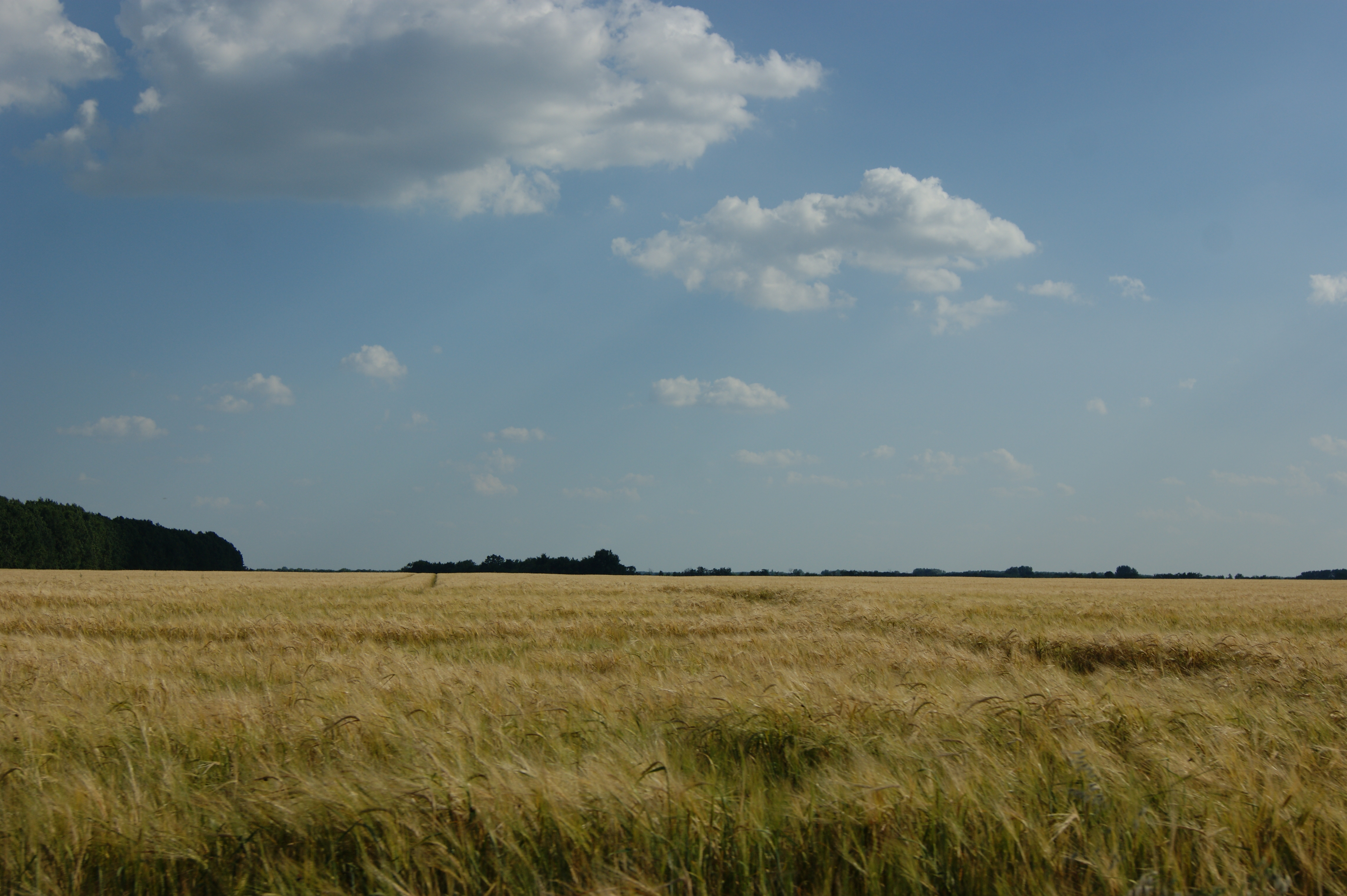 Cultural landscape near the village of Alekseyevka, Dobrinsky district, Lipetsk region.